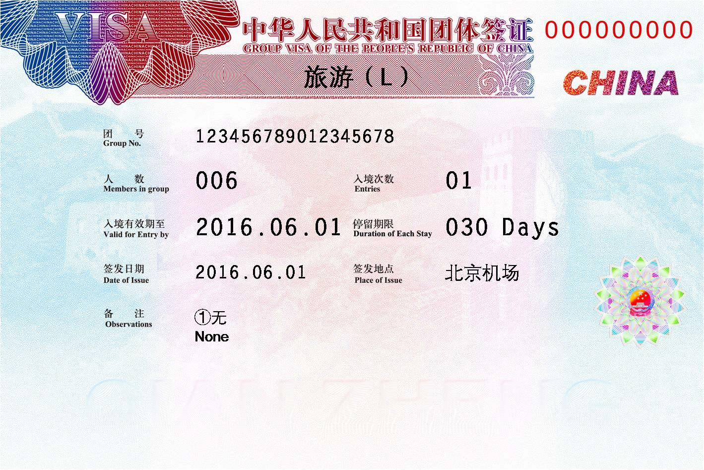 Group Visa of the People's Republic of China, which started to issue from June 1, 2019. 中文（中国大陆）: 2019年6月1日起签发的新版中华人民共和国团体签证